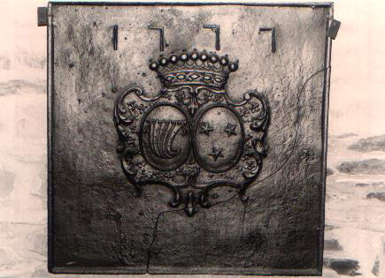 Chemny device called "take" made in cast iron Walon: Take di 1777